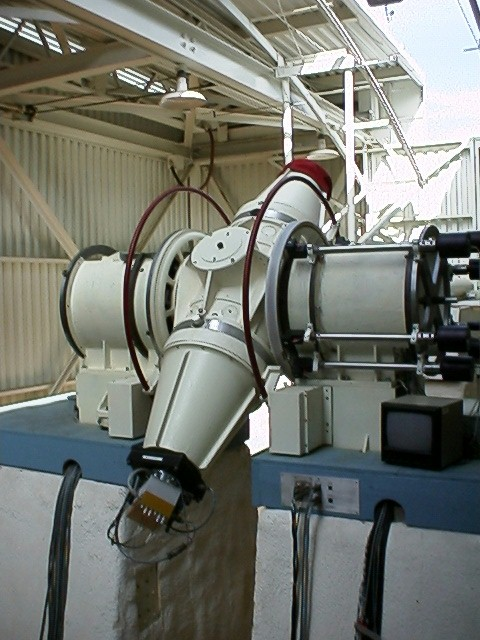 The Flagstaff Astrometric Scanning Transit Telescope (FASTT) is a completely automated transit telescope utilizing scan-mode CCD cameras to measure the positions of hundreds of thousands of stars to fainter than 17th magnitude. It has been used in studies of the relationship between optical and radio reference frames, since it can detect and accurately measure positions of both the bright stars used to define the optical reference frame and faint quasars and radio galaxies that define the radio frame.